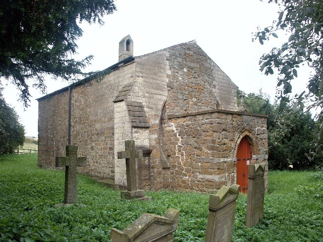 Clixby - All Hallows. The chancel of the 13th-century church of All Hallows was badly in need of repair until it was restored in 1889 and a west porch was added. In the floor is a 14th-century slab with an incised cross and chalice and the remains of a Lombardic inscription to a priest. Latin inscriptions in praise of the Virgin adorn the wooden ceiling. The carved octagonal font and pews with poppy heads have been rescued from other redundant churches. The altar has a triptych which includes the crucifixion, burial and resurrection of Christ.